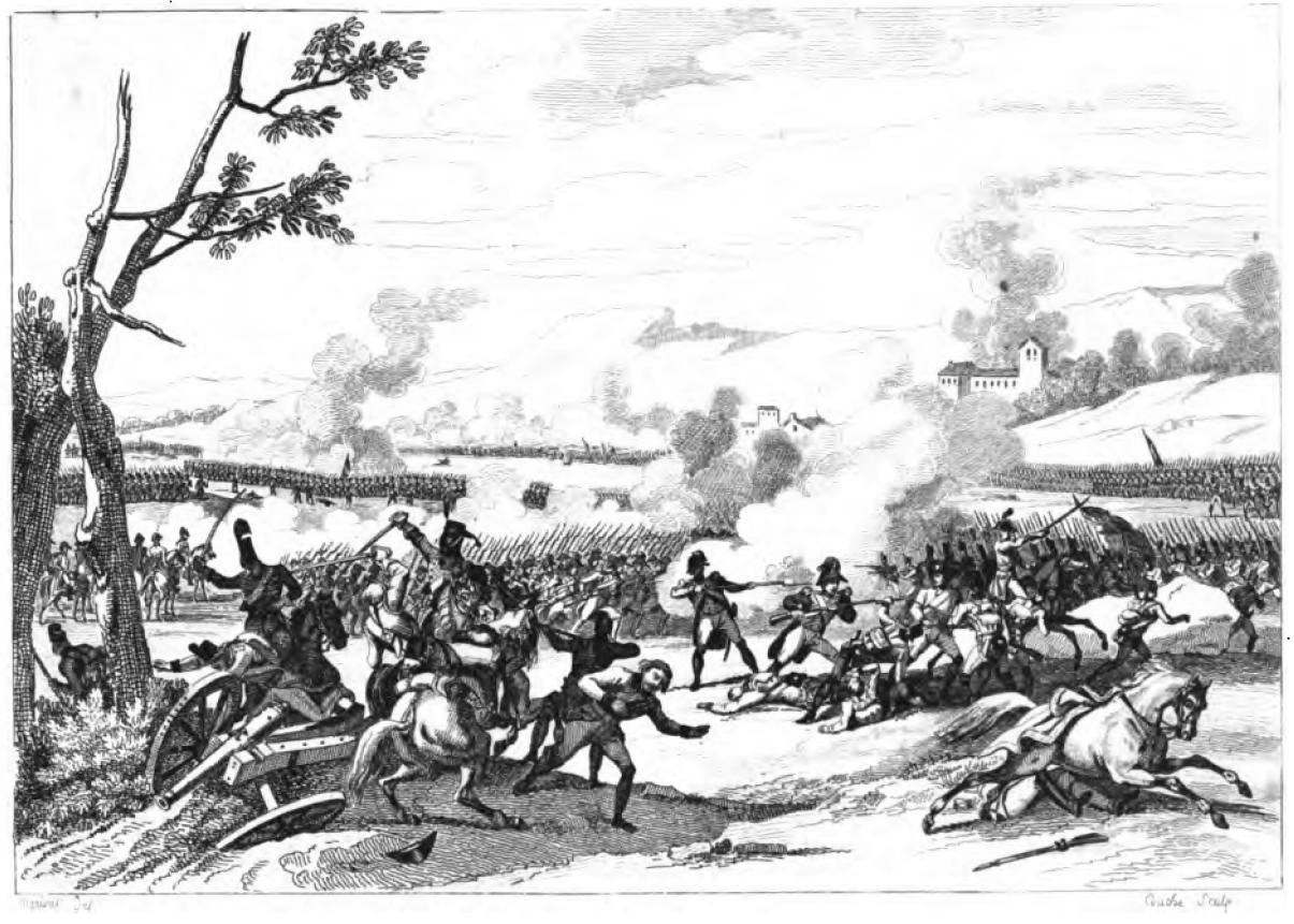 Battle of Biberach